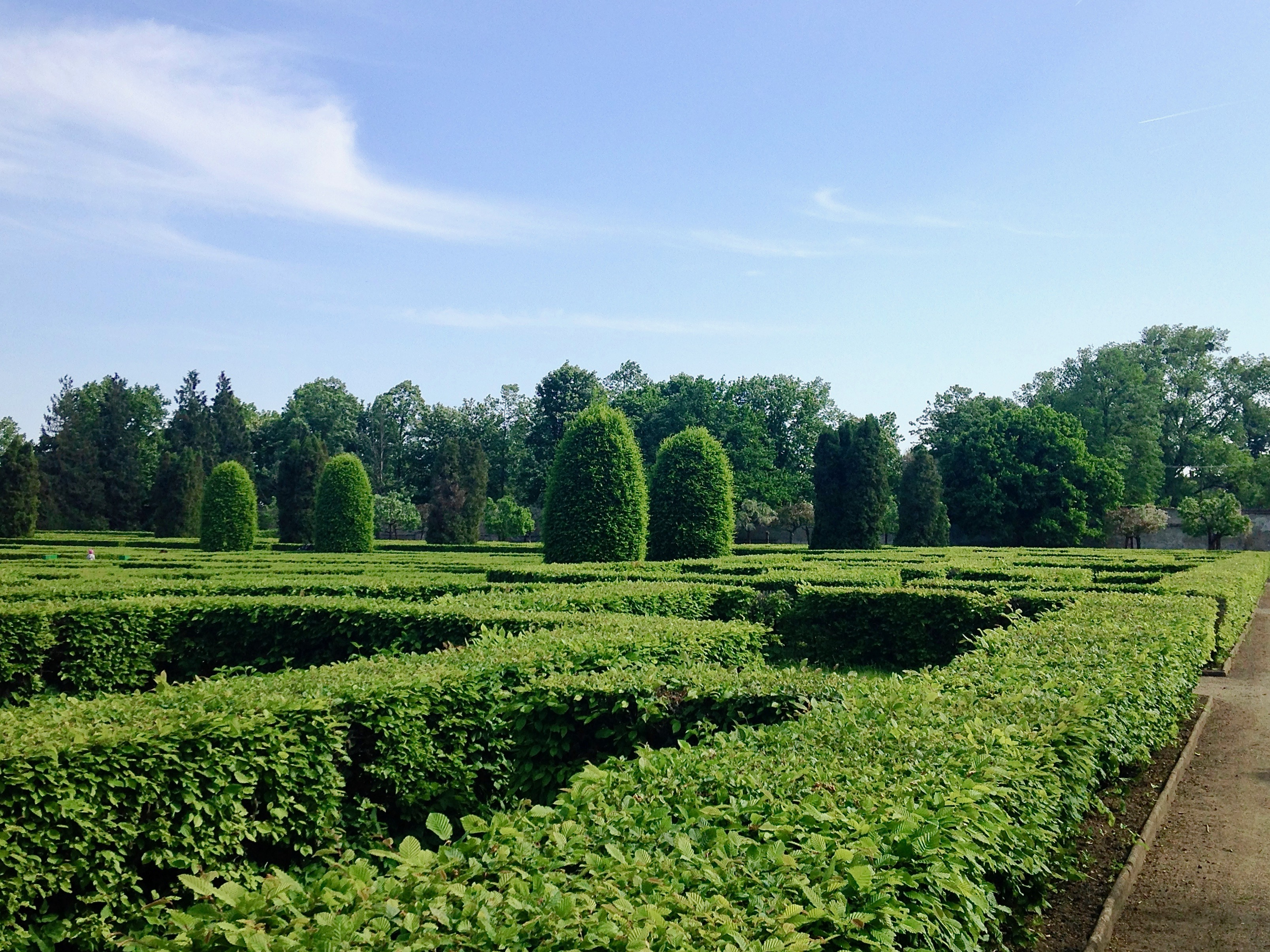 Chateau park in Bučovice, arrangement 2018